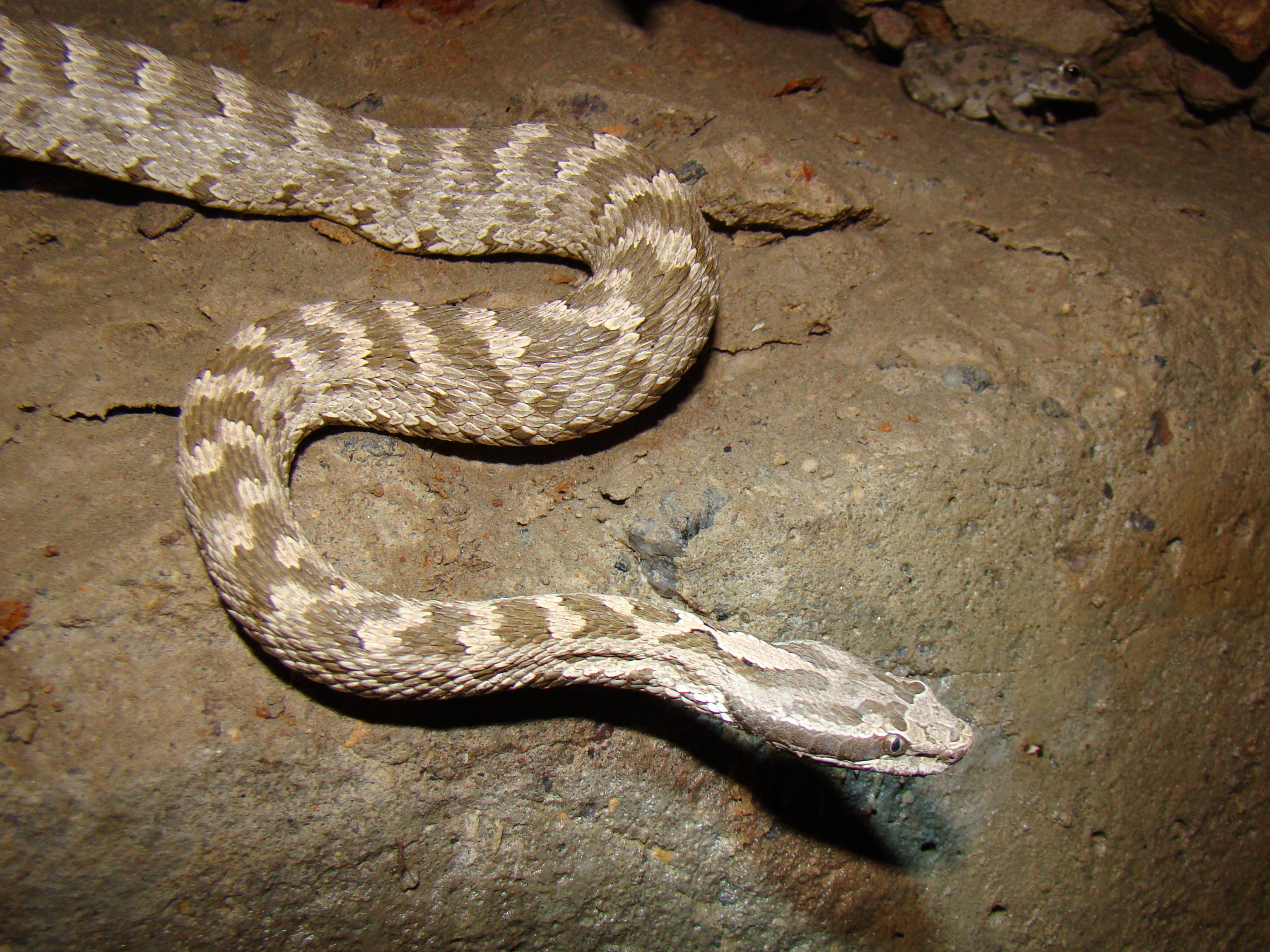 Gloydius halys with his victim young European Green Toad (Bufo viridis). Cellar of a country house near river Syr-Darya, a vicinity of the city of Baikonur, Kazakhstan.